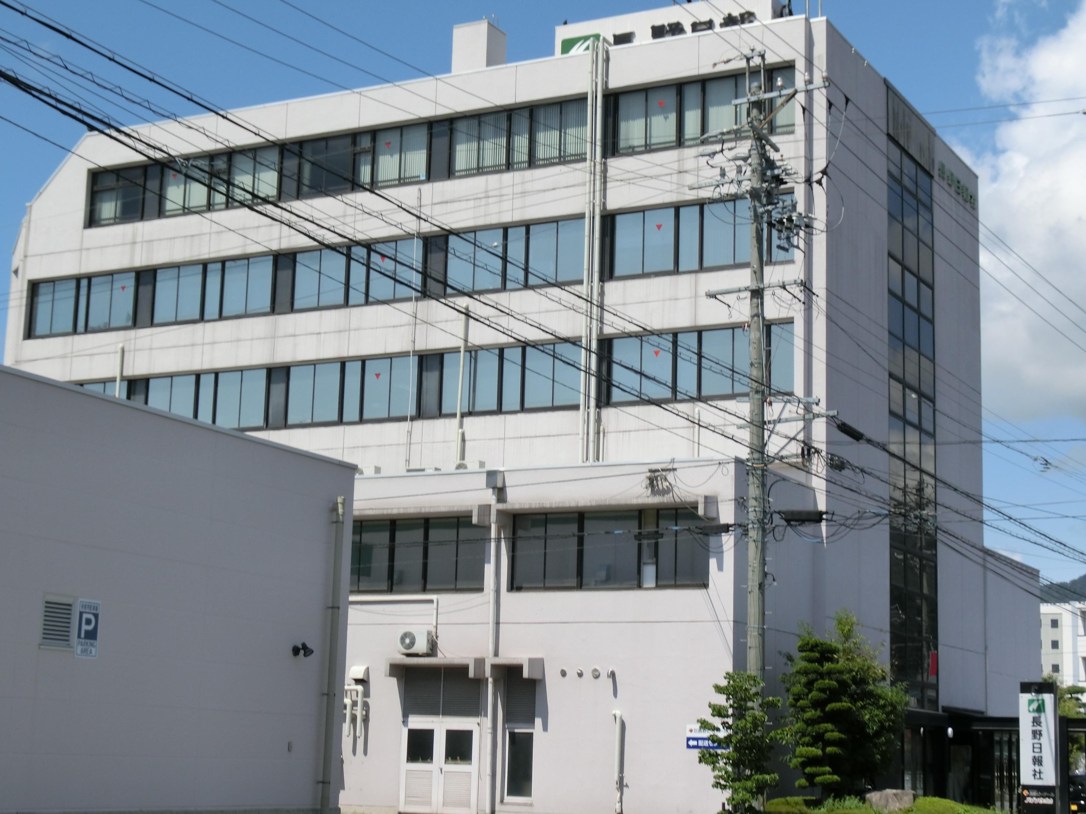 Nagano Nippo Head Office